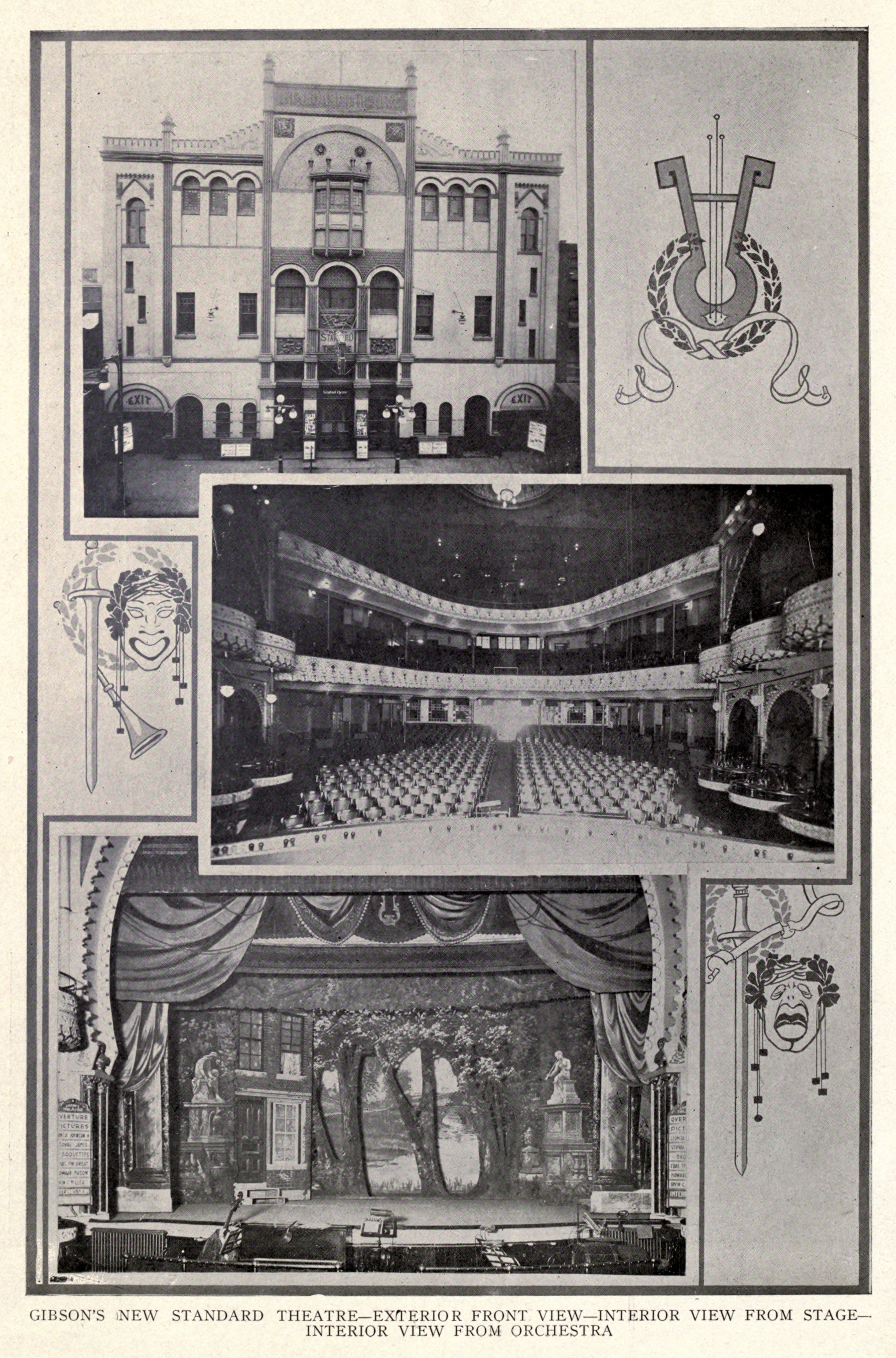 Gibson's New Standard Theatre, Philadelphia PA (1919) From The National Cyclopedia of the Colored Race, Editor-in-Chief Clement Richardson (1919) National Publishing Co., Inc. Montgomery AL (